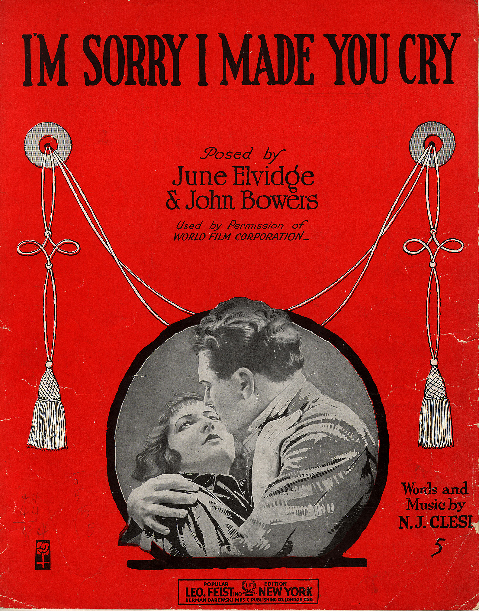 "I'm Sorry I Made You Cry", 1918 edition, sheet music cover with depiction of silent film stars June Elvidge and John Bowers.